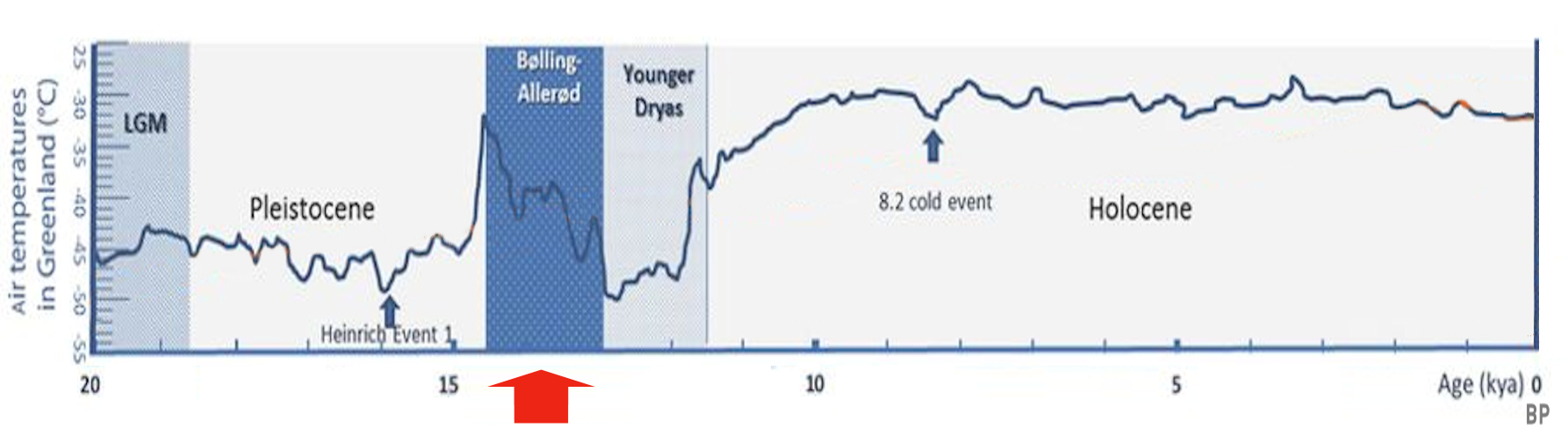 Evolution of temperature in the Post-Glacial period according to Greenland ice cores (Bølling-Allerød)